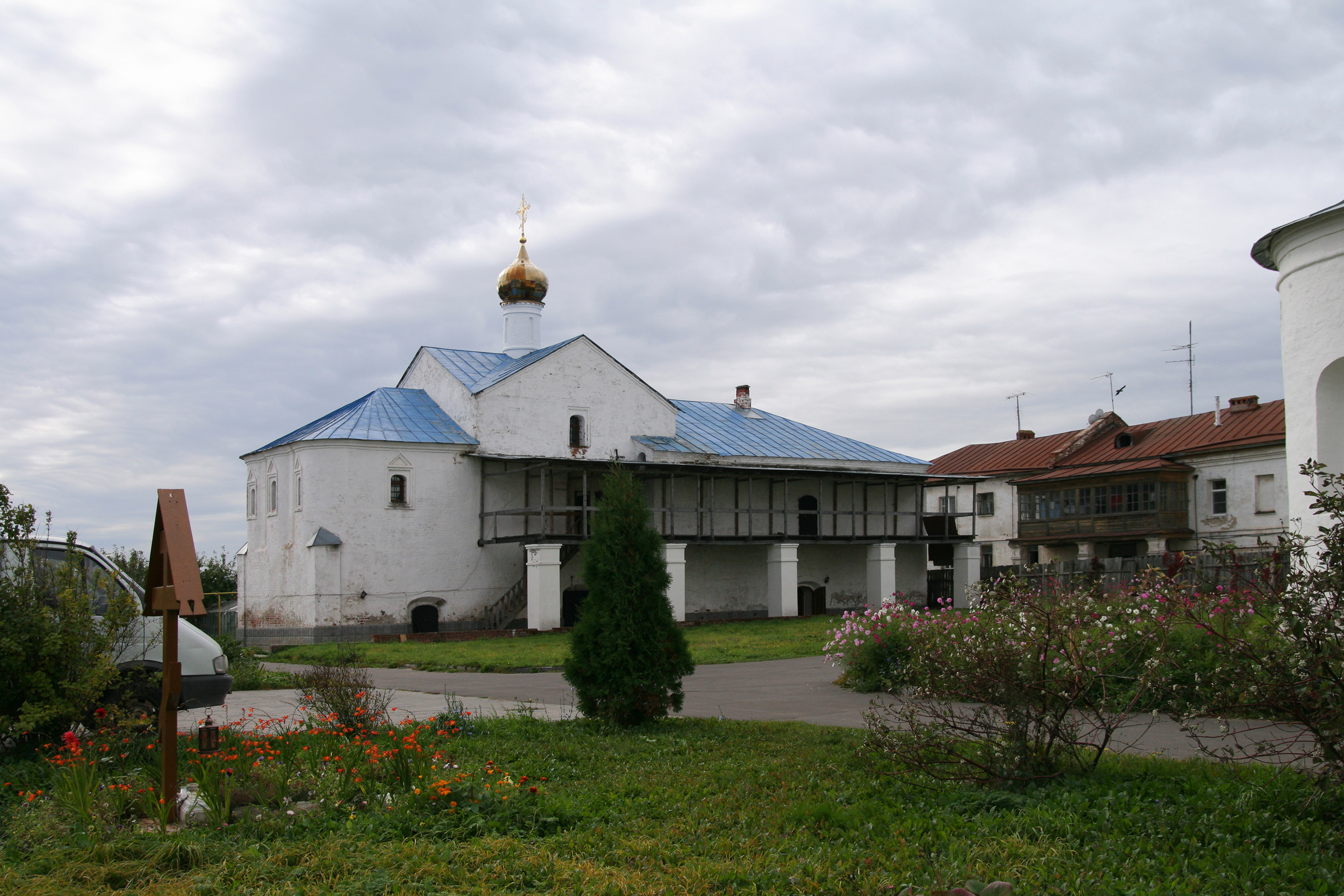 Sretenskaya Church of Vasilievsky Monastery, XVII c, Suzdal